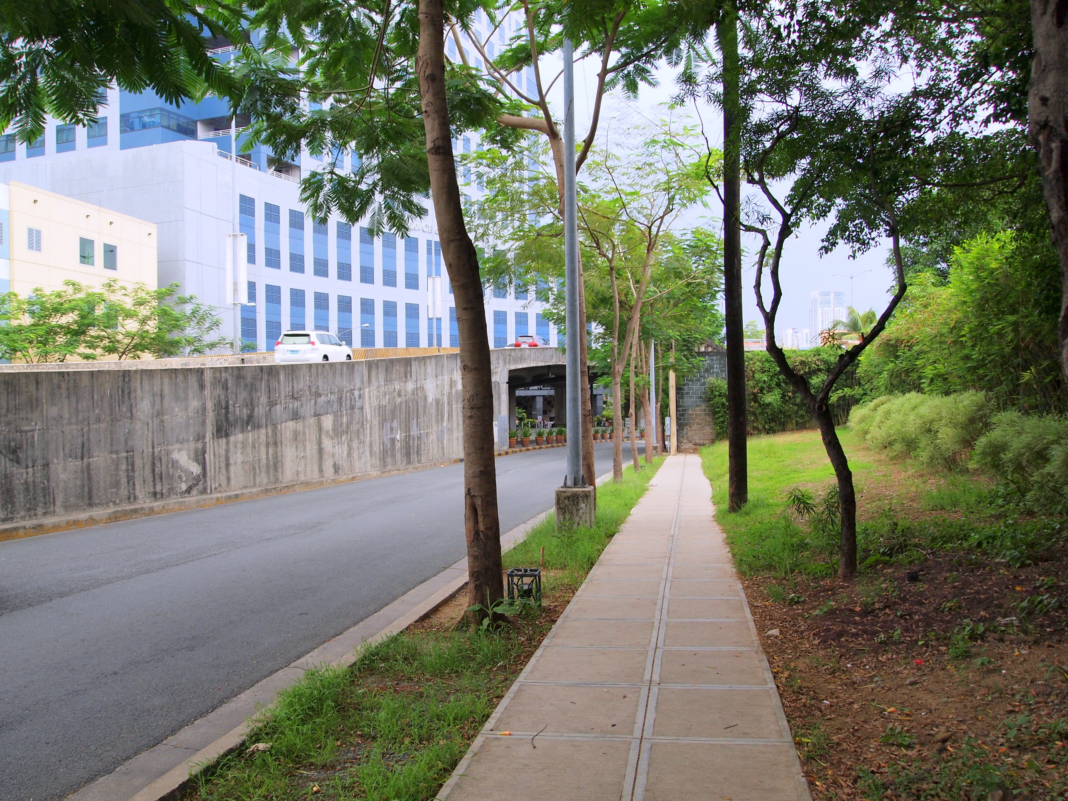 JP Morgan Chase Bank near 32nd Street Taguig City, Metro Manila, Philippines. Walking path along the street - paved at last. Photo taken on a Sunday. During weekdays the traffic is terrific!